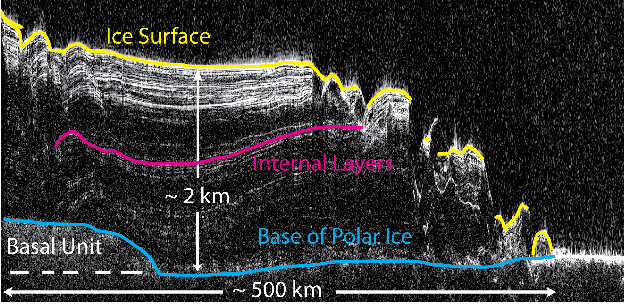 This image shows a cross-section of a portion of the north polar ice cap of Mars, derived from data acquired by the Mars Reconnaissance Orbiter's Shallow Radar (SHARAD), one of six instruments on the spacecraft. The data depict the region's internal ice structure, with annotations describing different layers. The ice depicted in this graphic is approximately 2 kilometers (1.2 miles) thick and 250 kilometers (155 miles) across. White lines show reflection of the radar signal back to the spacecraft. Each line represents a place where a layer sits on top of another. Scientists study how thick the pancake-like layers are, where they bulge and how they tilt up or down to understand what the surface of the ice sheet was like in the past as each new layer was deposited.